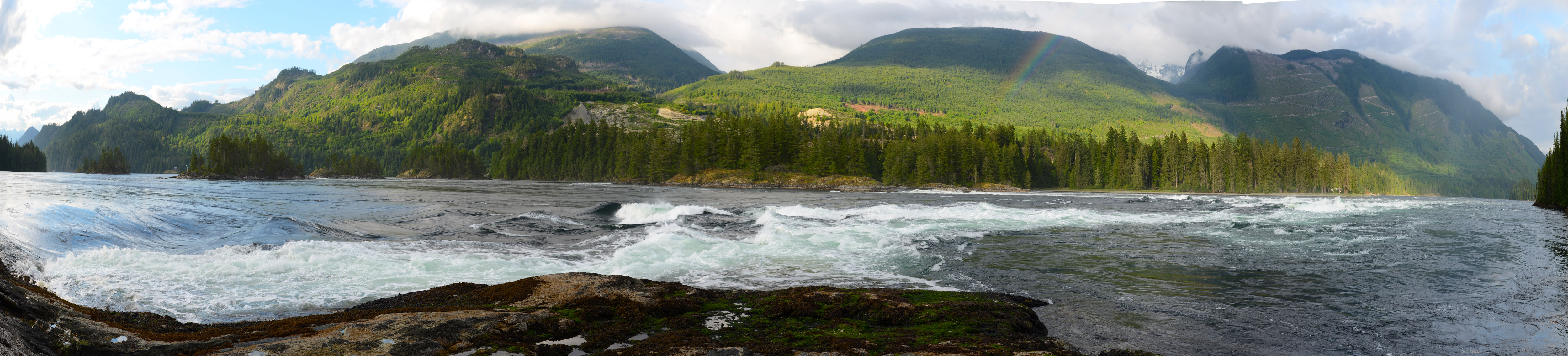 Skookumchuck Narrows panorama. Taken Sunday, 26 May 2013 18:15 at a very high tide